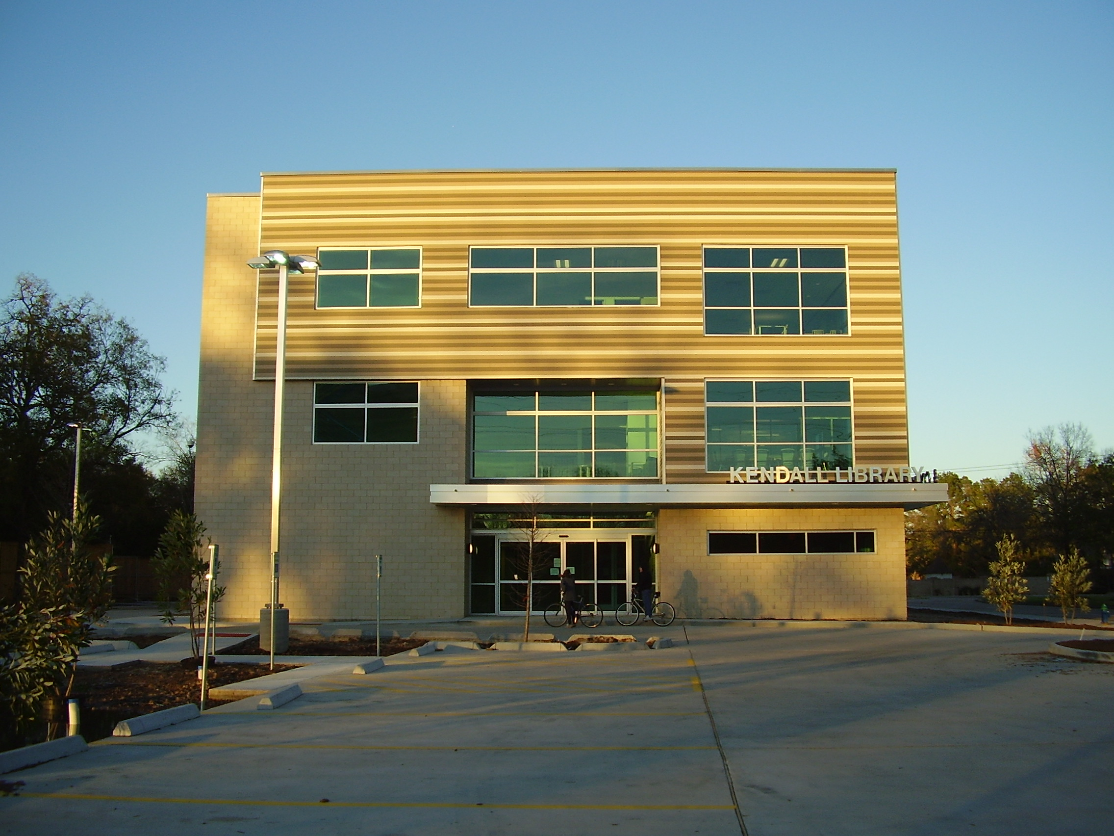 Kendall Neighborhood Library